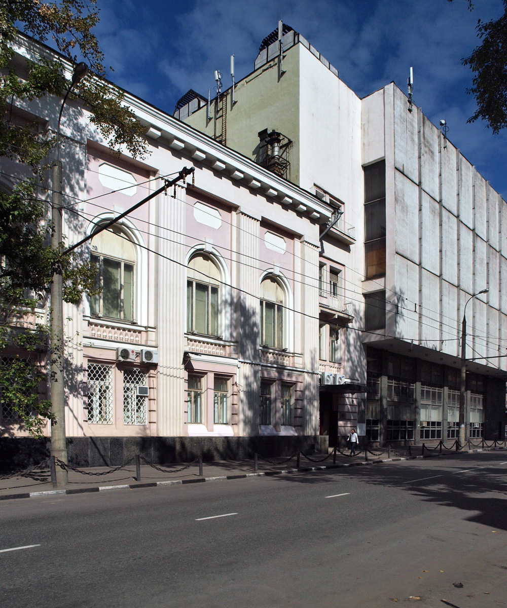 The Cinema House on Vasilyevskaya street, Moscow